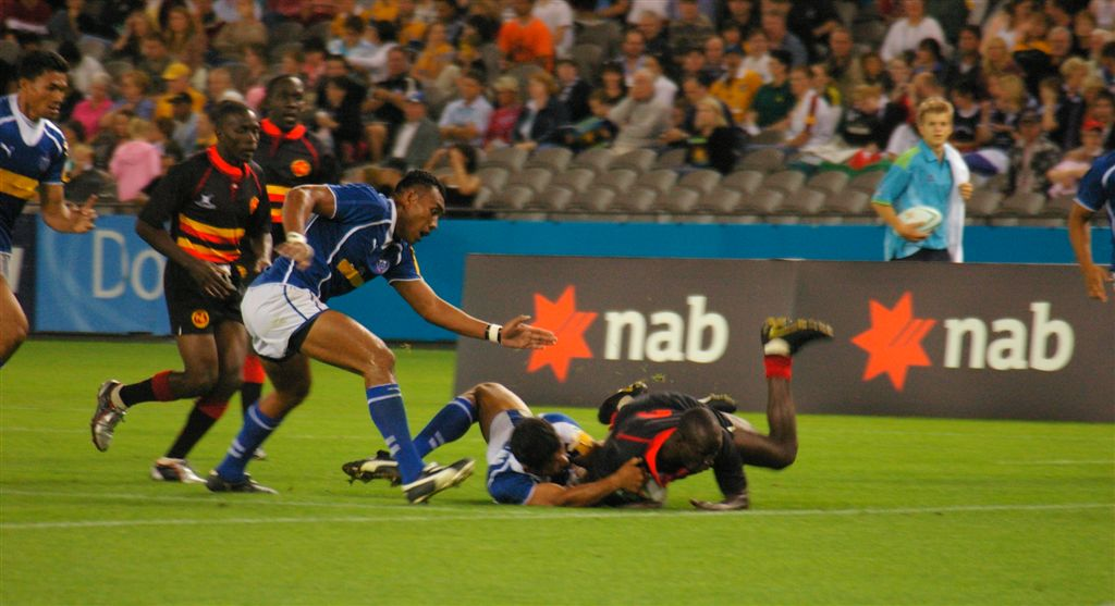 Uganda v Samoa (20 March, 2006). Uganda scores a try against Samoa.